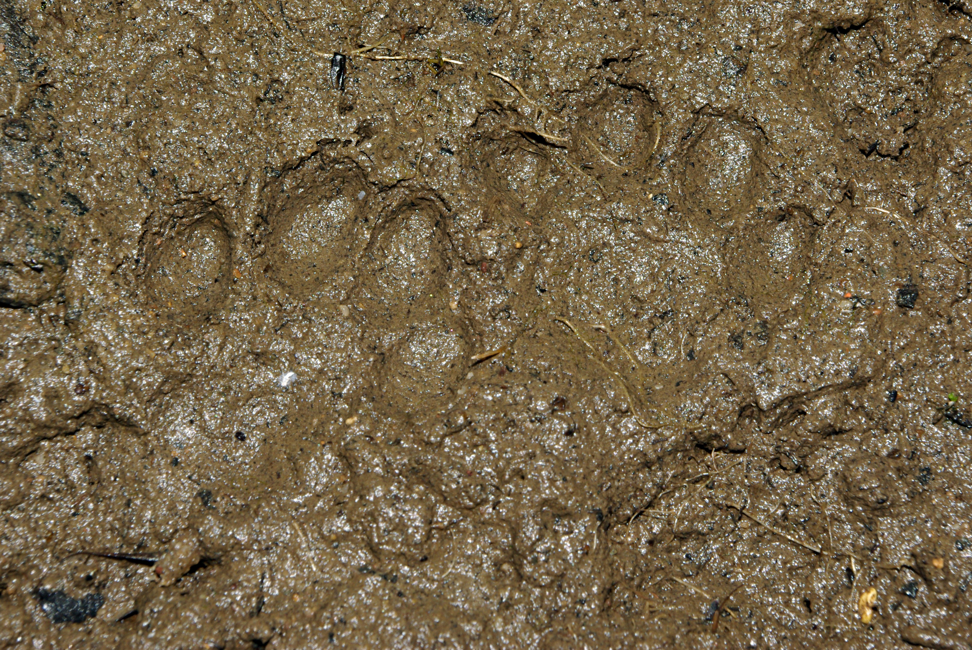 Tracks of European Otter (Lutra lutra). River Porma, León (Spain).